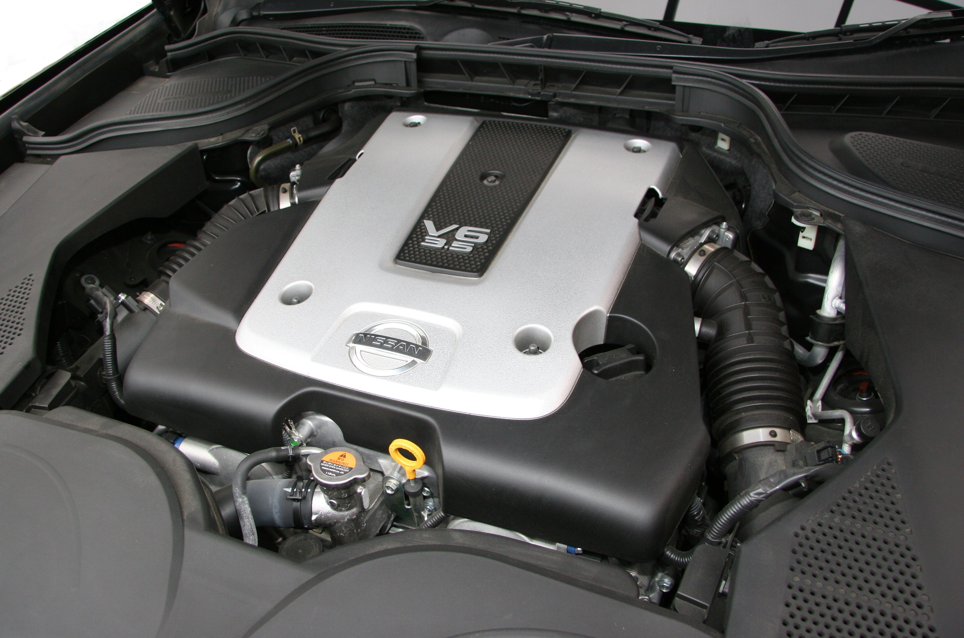 NISSAN FUGA engine room (NISSAN VQ35HR engine)